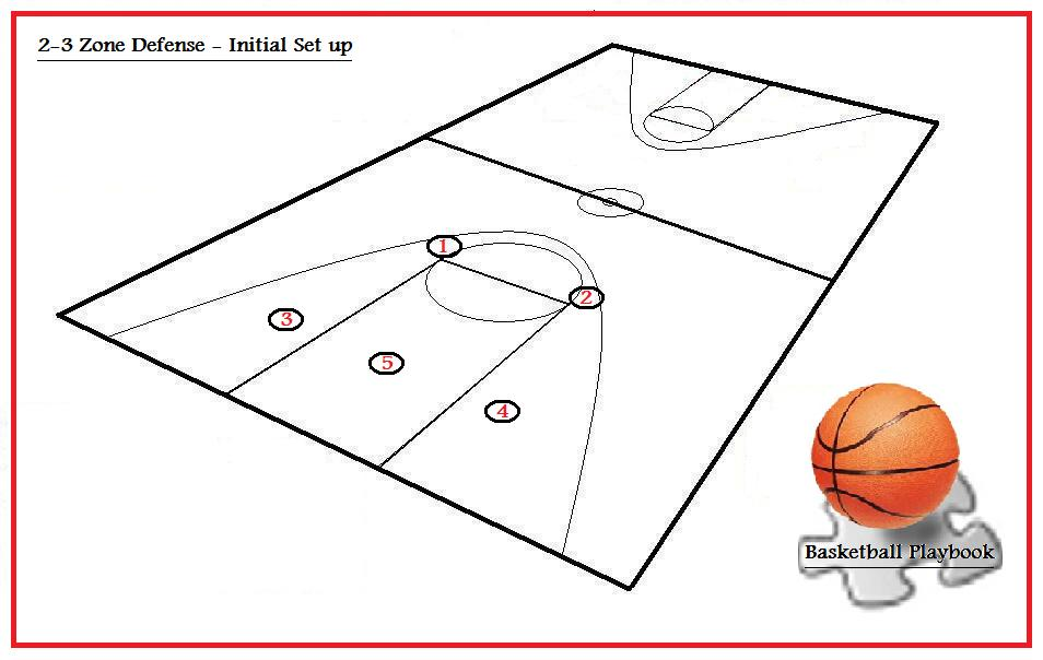 2-3 zone defense - initial set up